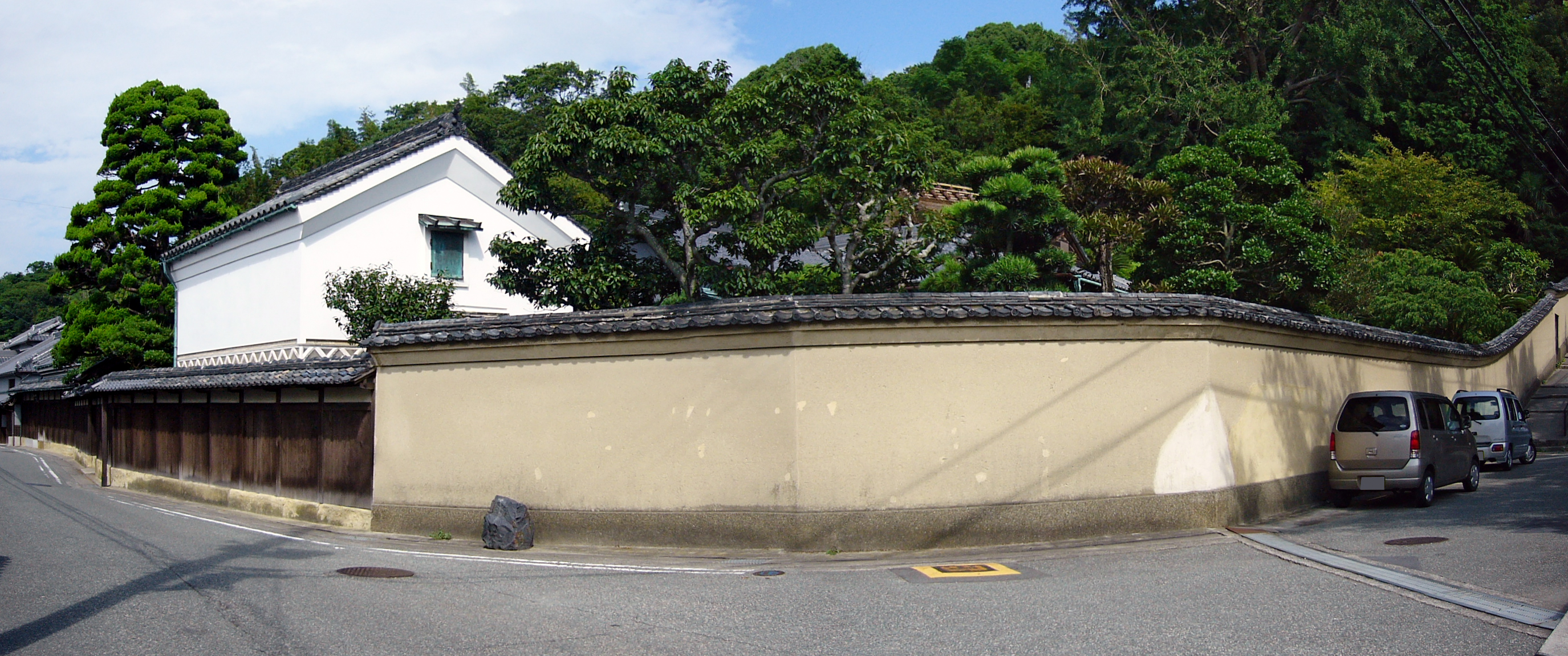 Tabuchi Garden in Akō, Hyogo prefecture, Japan